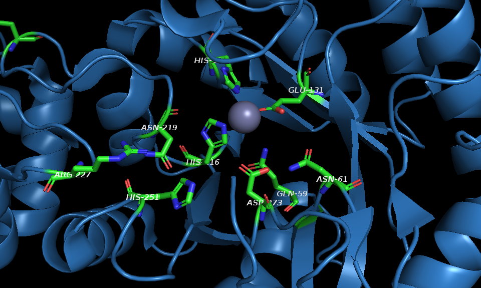 The residues in this active site are Gln 59, Asn 61, Glu 131, His 195, His 216, Asn 219, Arg 227, and Asp 273.